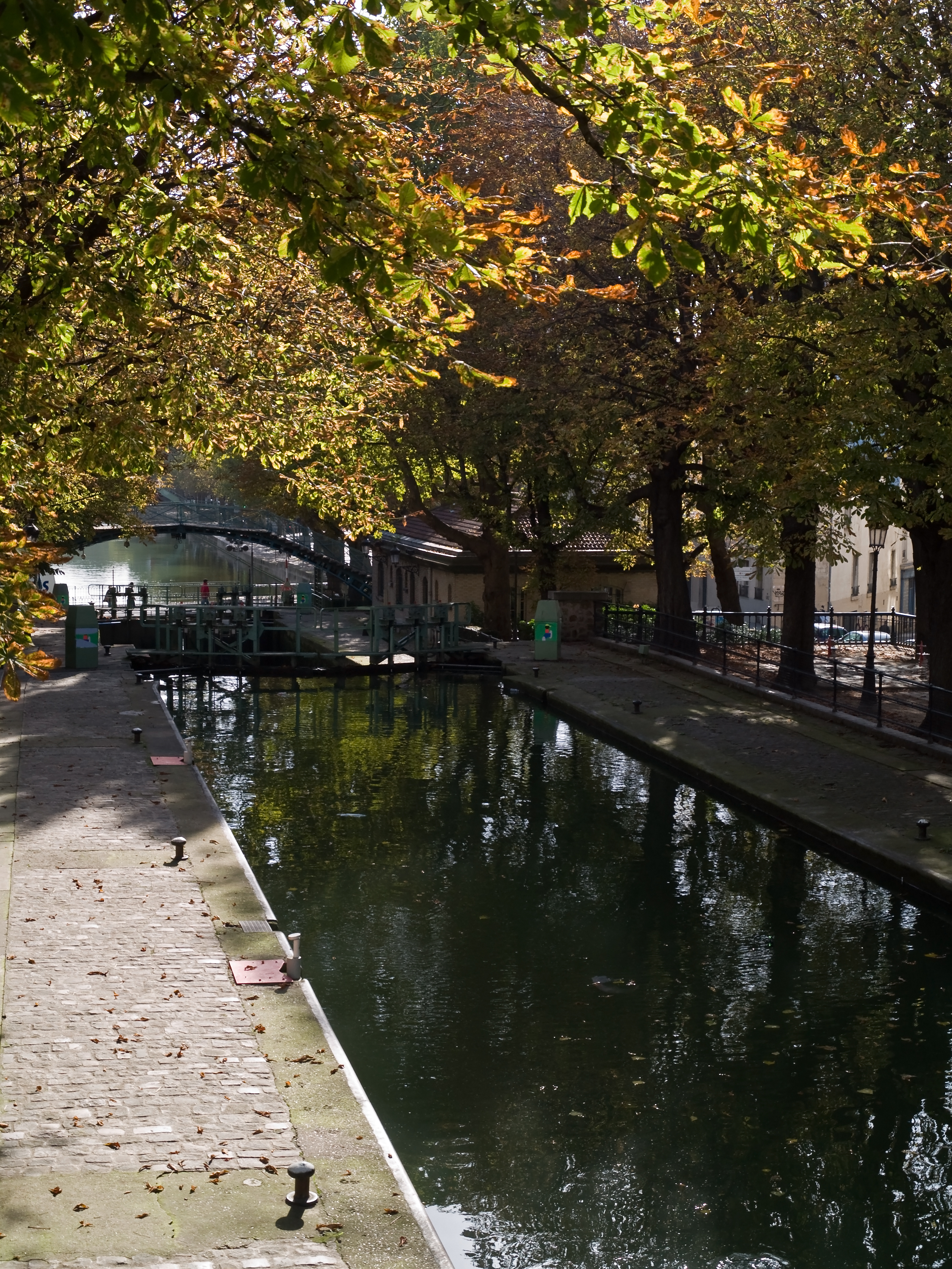 Canal Saint-Martin in Paris, seen from Bichat footbridge (passerelle Bichat): Recollets Lock and Grange-aux-Belles footbridge (passerelle de la Grange-aux-Belles).